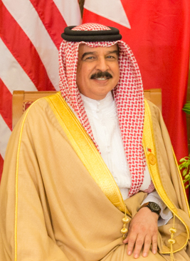 President Donald Trump meets with King Hamed bin Issa of Bahrain during their bilateral meeting, Sunday, May 21, 2017, at the Ritz-Carlton Hotel in Riyadh, Saudi Arabia. (Official White House Photo by Shealah Craighead)